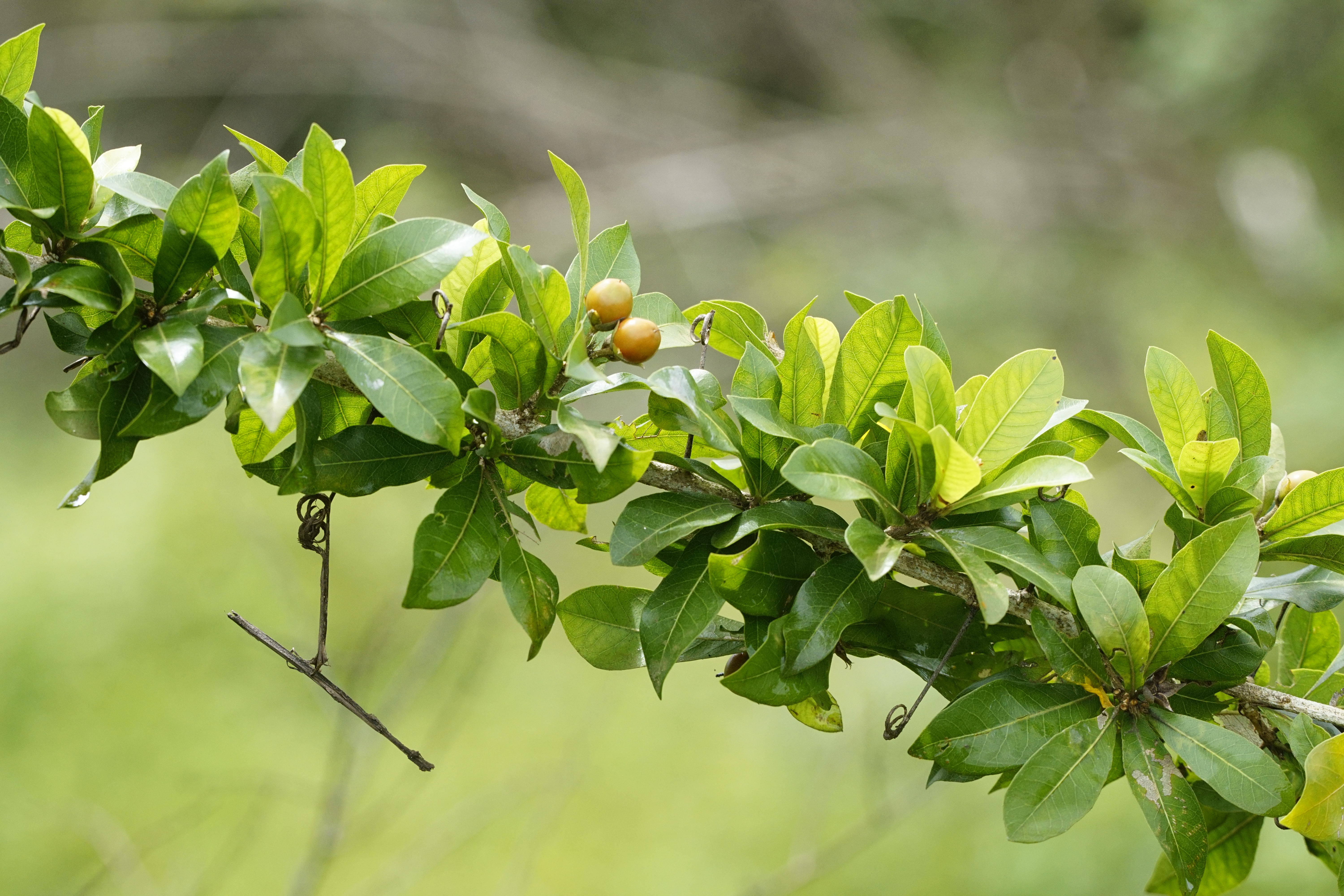 Floraa